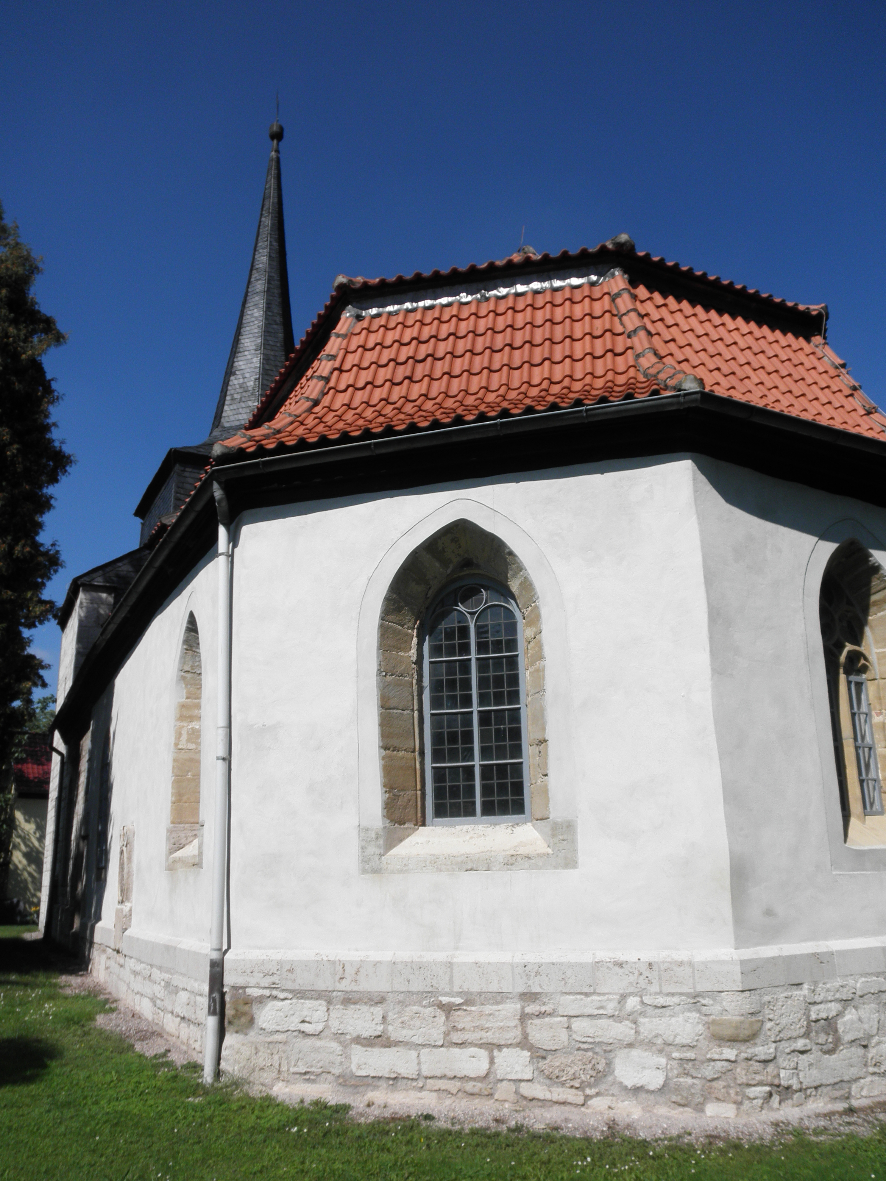 Church in Sundhausen in Thuringia